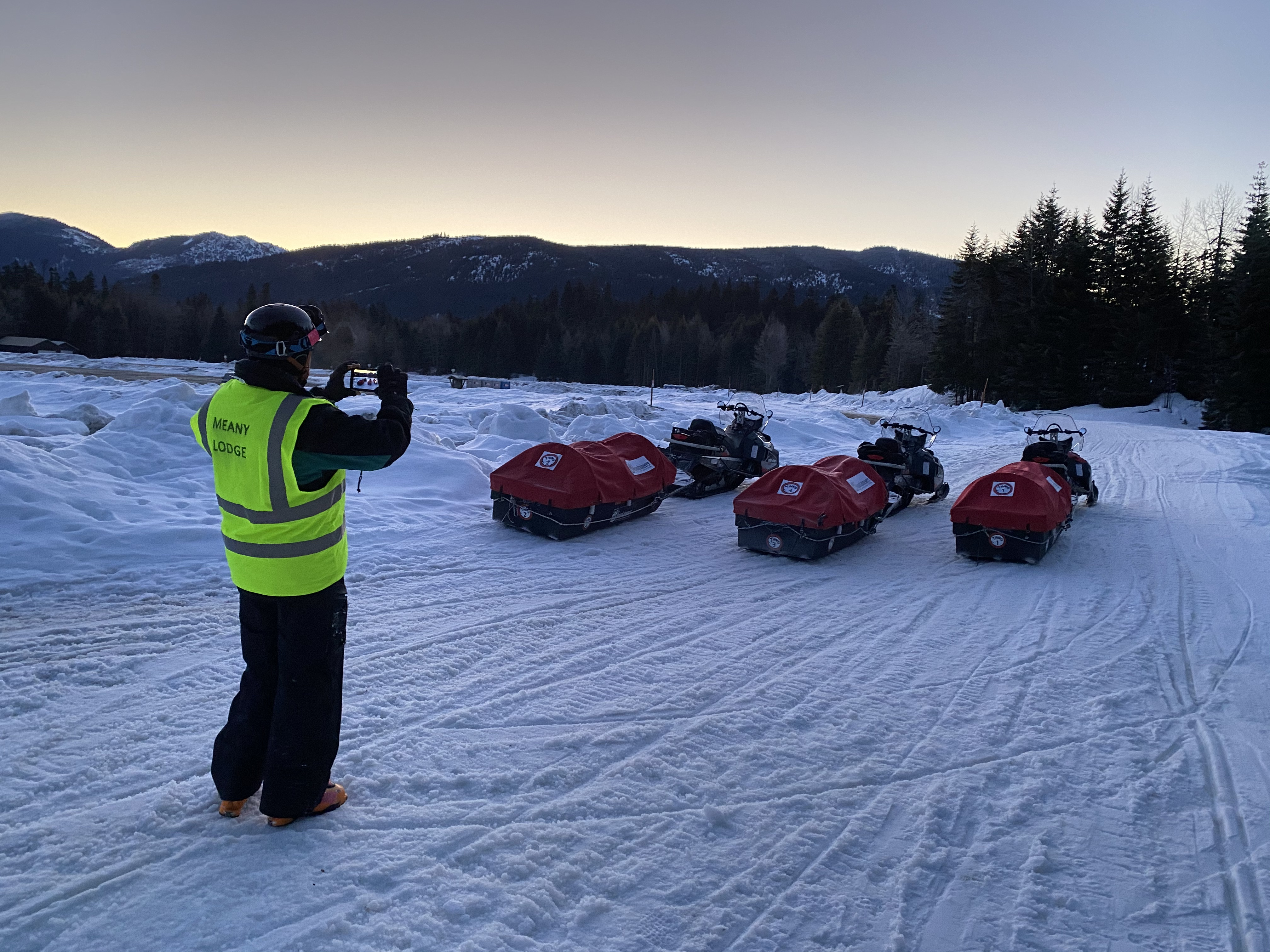 Three snowmobiles in Crystal Springs Sno-Park, ready to tow skiers and haul their gear up to Meany Lodge.